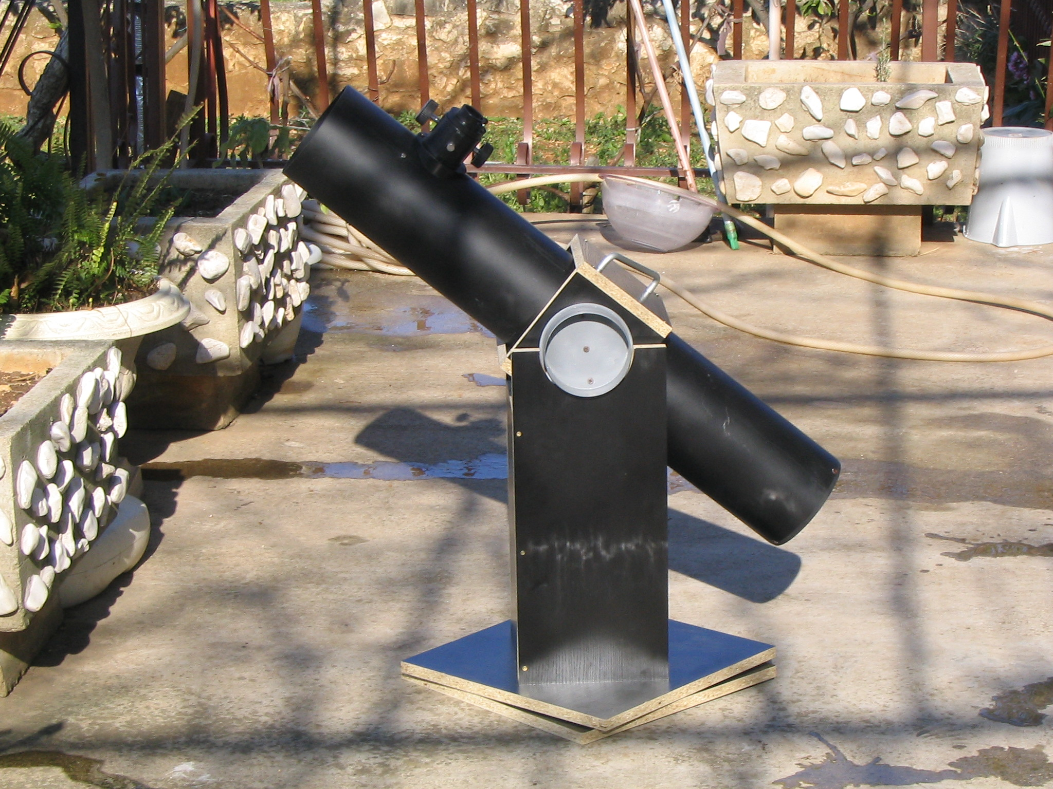 Home made dobsonian d=114mm, f=910mm, made for Nebo na poklon (Presenting the skies) project